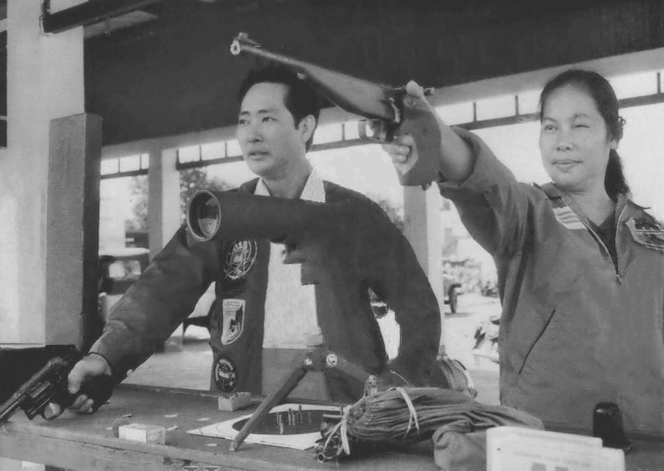 1972 Press Photo Mrs. Huong & husband practice for Olympic Games Pistol Shooting